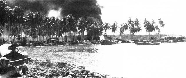 The Japanese struck back hard at the New Georgia invasion force with bombers and fighters. Allied combat air patrols shot down many of the enemy, but some got through to damage Marine positions on Rendova. This area became known as "Suicide Point" after fuel and explosives dumps were hit during the 2 July 1943 raid.